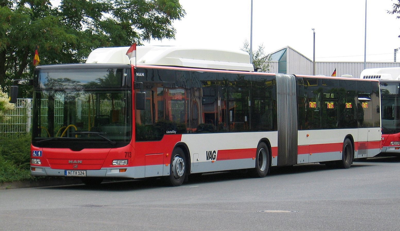 MAN NG 313 CNG Lion's City bus in Nürnberg, Germany. Year built 2006.